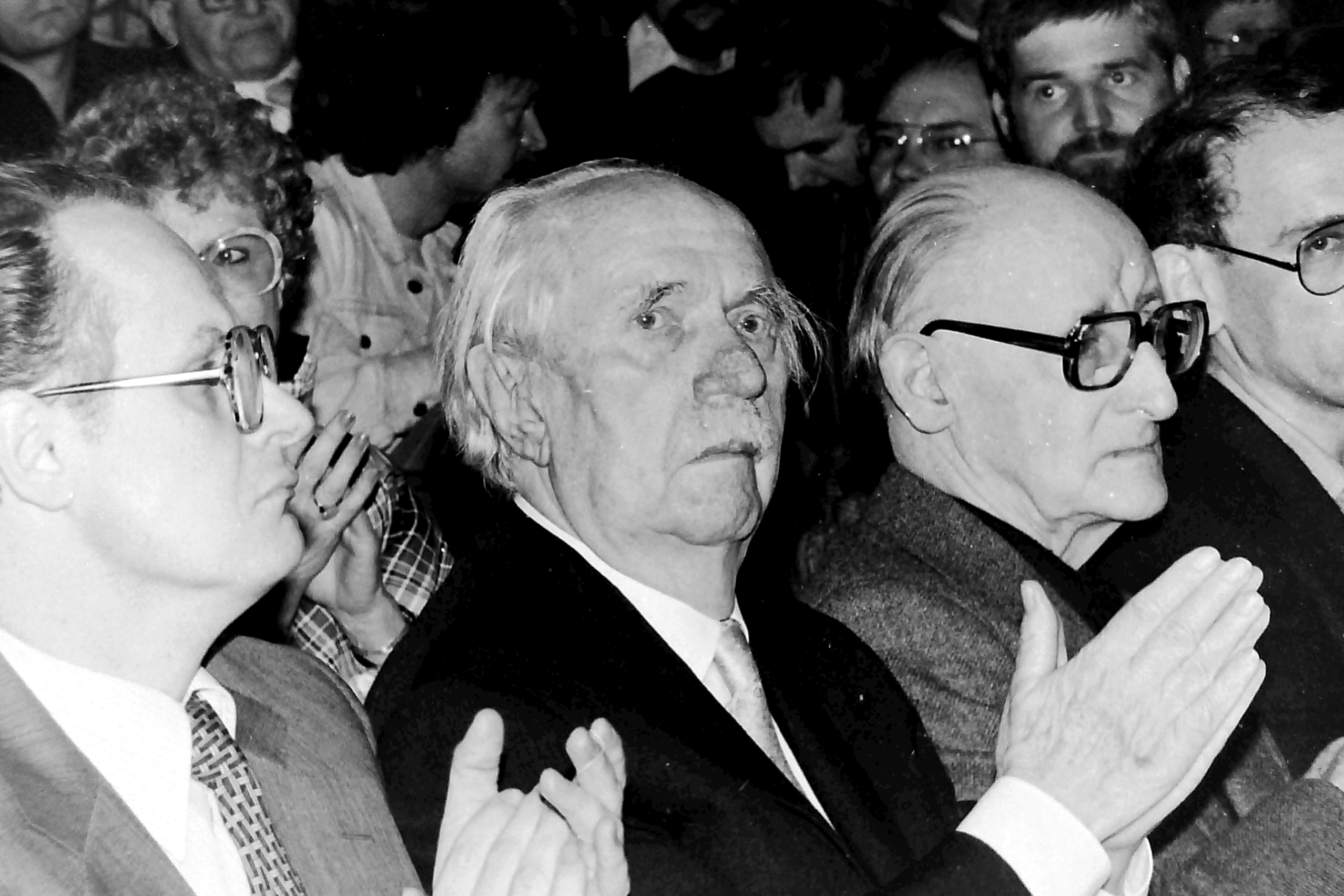 Presentation of the 1979 Carl von Ossietzky Medal to Axel Eggebrecht and Fritz Eberhard at the Carl von Ossietzky Oberschule in the Kreuzberg district of Berlin (from left: Peter Glotz, Fritz Eberhard, Axel Eggebrecht)